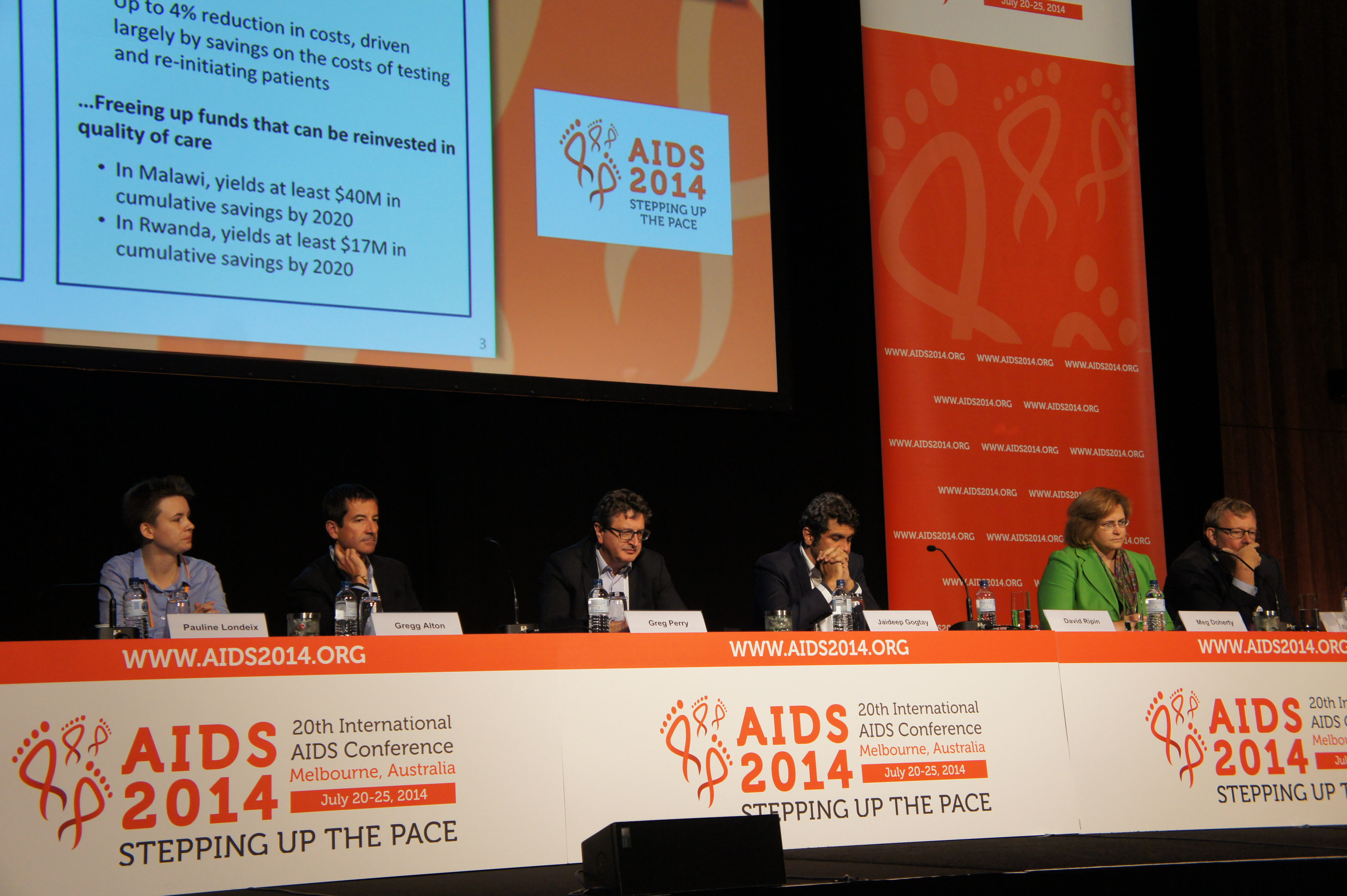 Pauline Londeix at the international aids conference in July 2014, in a session on the future of HIV and HCV medicines, with Gregg Alton, Gilead Sciences Vice President and Gregg Perry, Medicines Patent Pool Executive director.